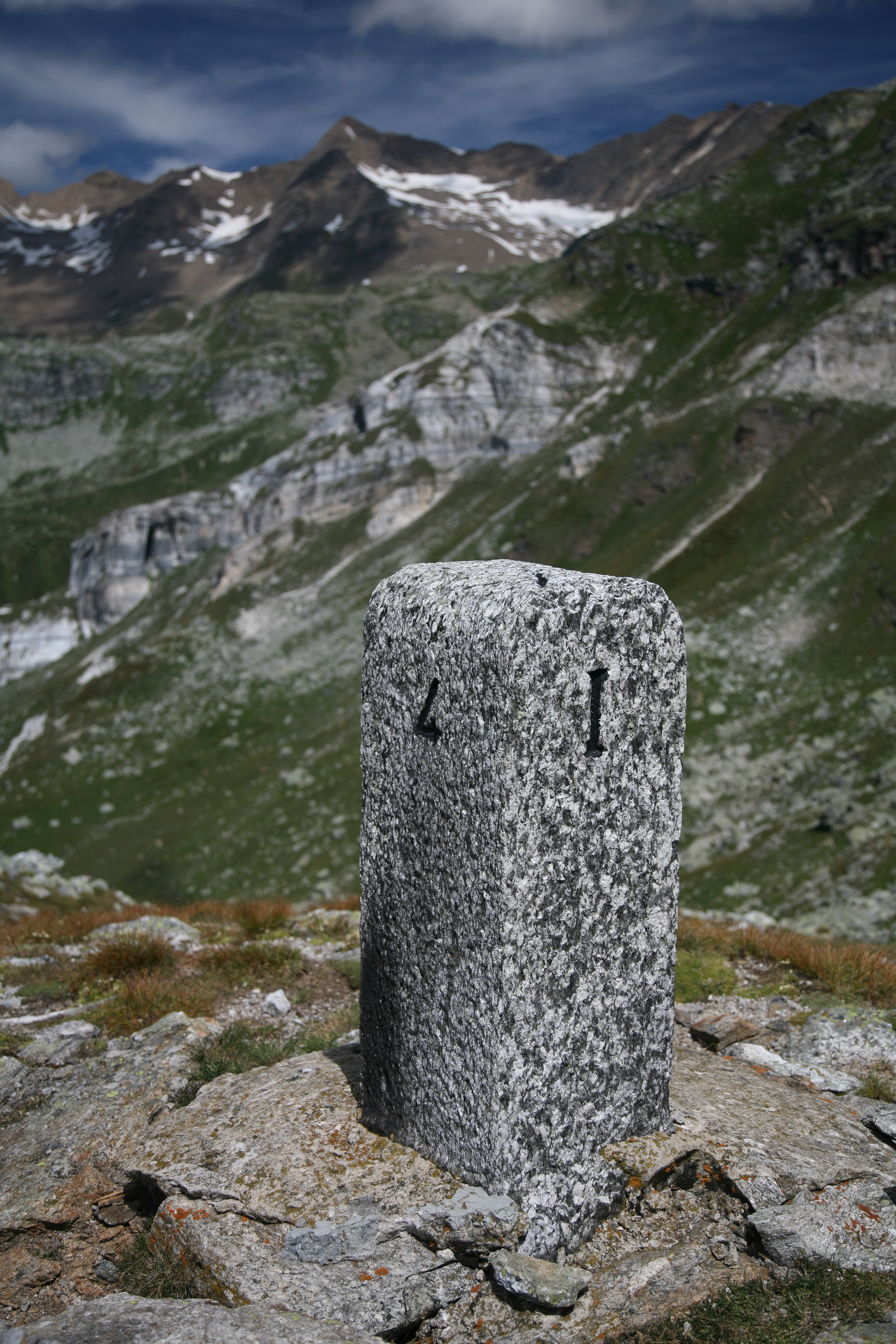 Boundary stone on the Albrun mountain pass (Switzerland - Italy)